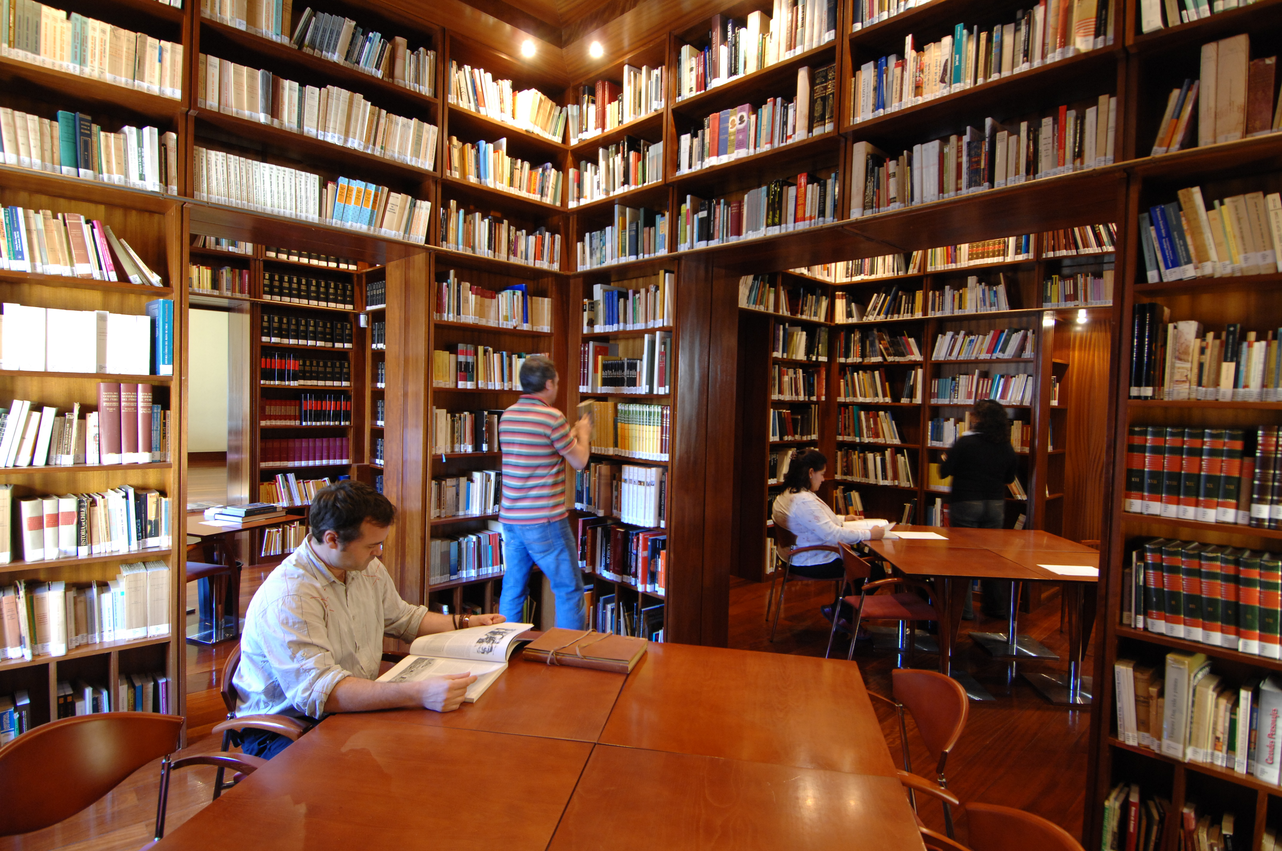 Casa de Colón